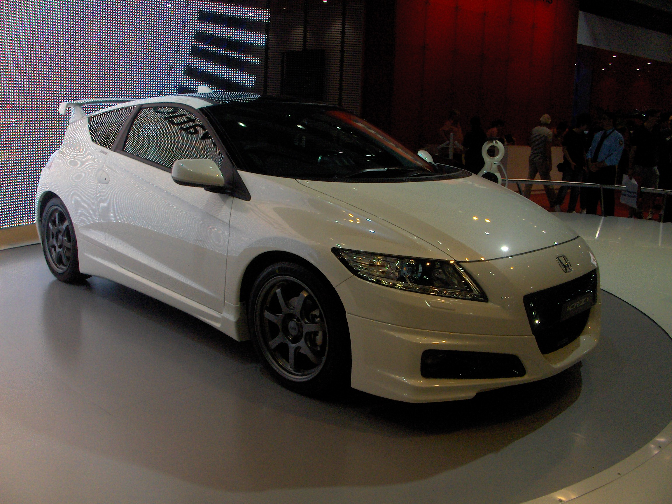 A Honda CR-Z Mugen at the 2010 AIMS.